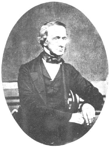 Thomas Orlando Sheldon Jewitt (1799 Buxton, Derbyshire – 30 May 1869, Camden Square, London), was an English architectural wood-engraver, the son of Arthur Jewitt and brother to Llewellyn Jewitt